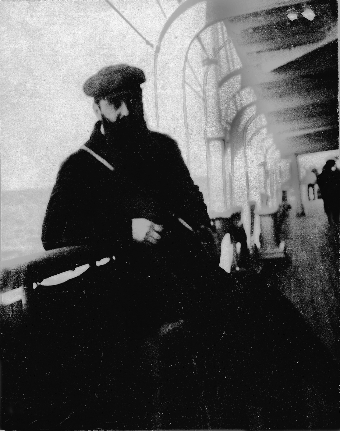 Herzl\'s visit to Palestine. At dawn on deck as the ship reach the shores of Jaffa.